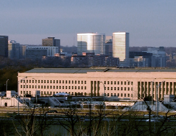 View of the southwest side of the Pentagon, with the skyscrapers of Rosslyn, Virginia beyond.